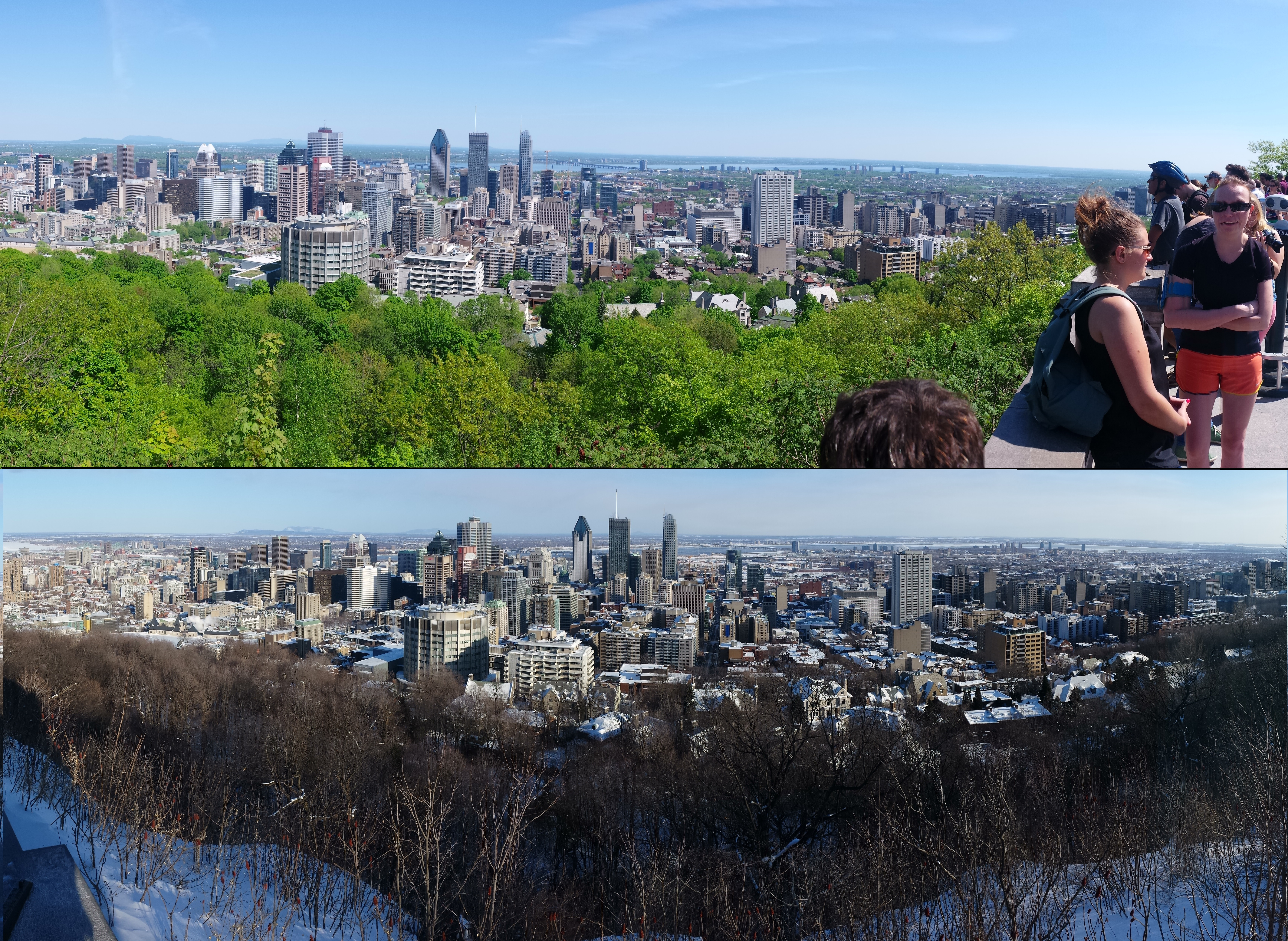 Montreal in winter and summer from the Mont-Royal gazebo.